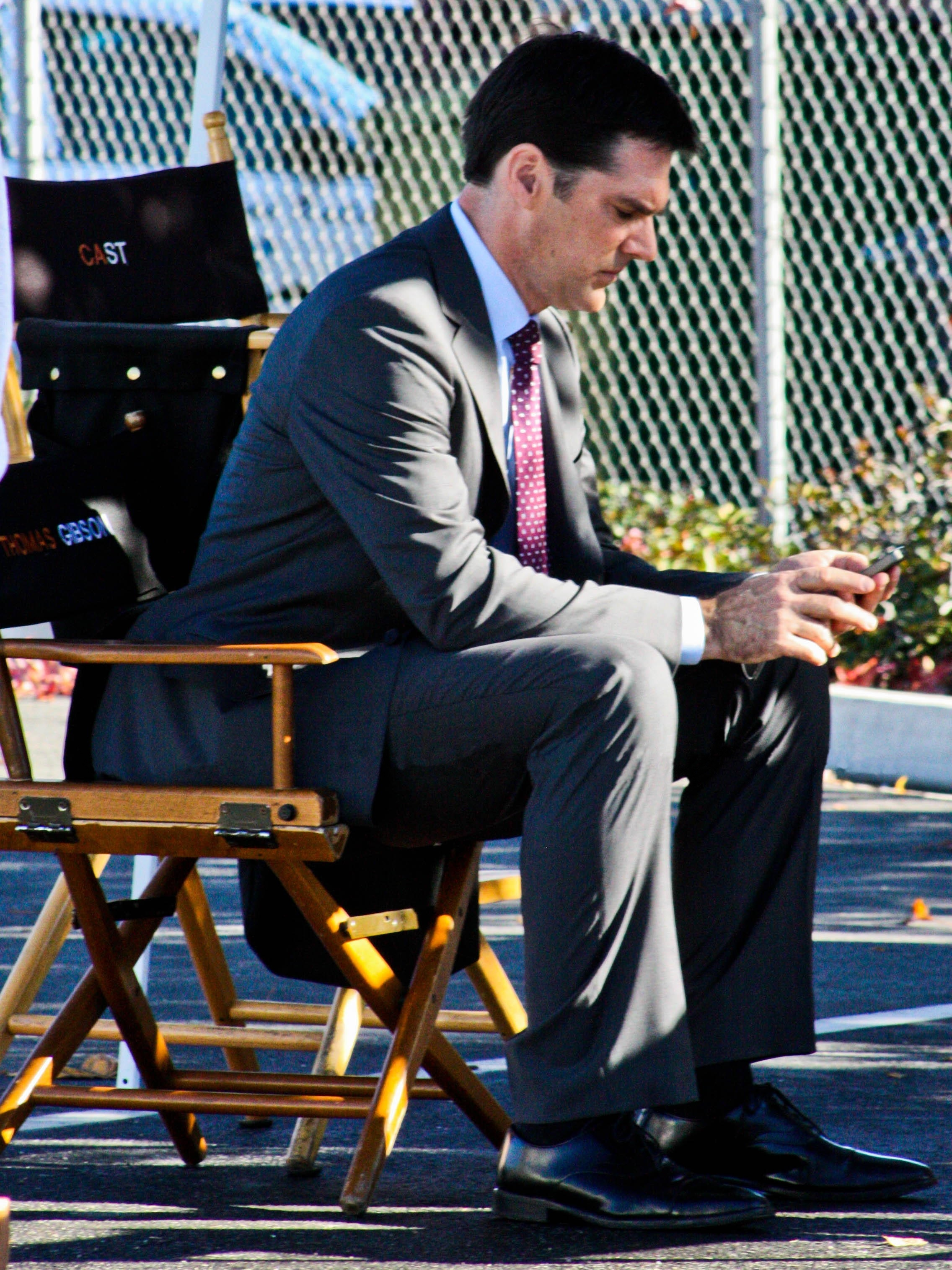 American actor Thomas Gibson on set during the filming of the hit TV series "Criminal Minds" in early December 2010 at Simi Valley, California.